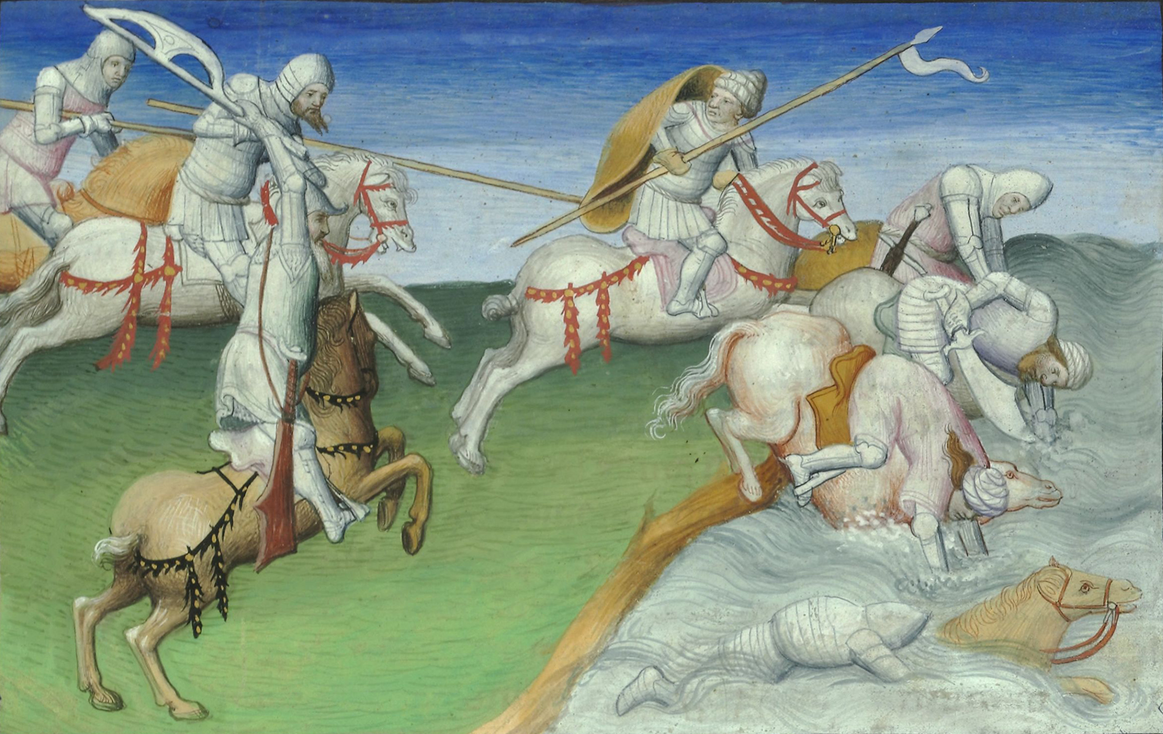 Battle at the Terek (1262). Hayton of Corycus, Fleur des histoires d'orient.